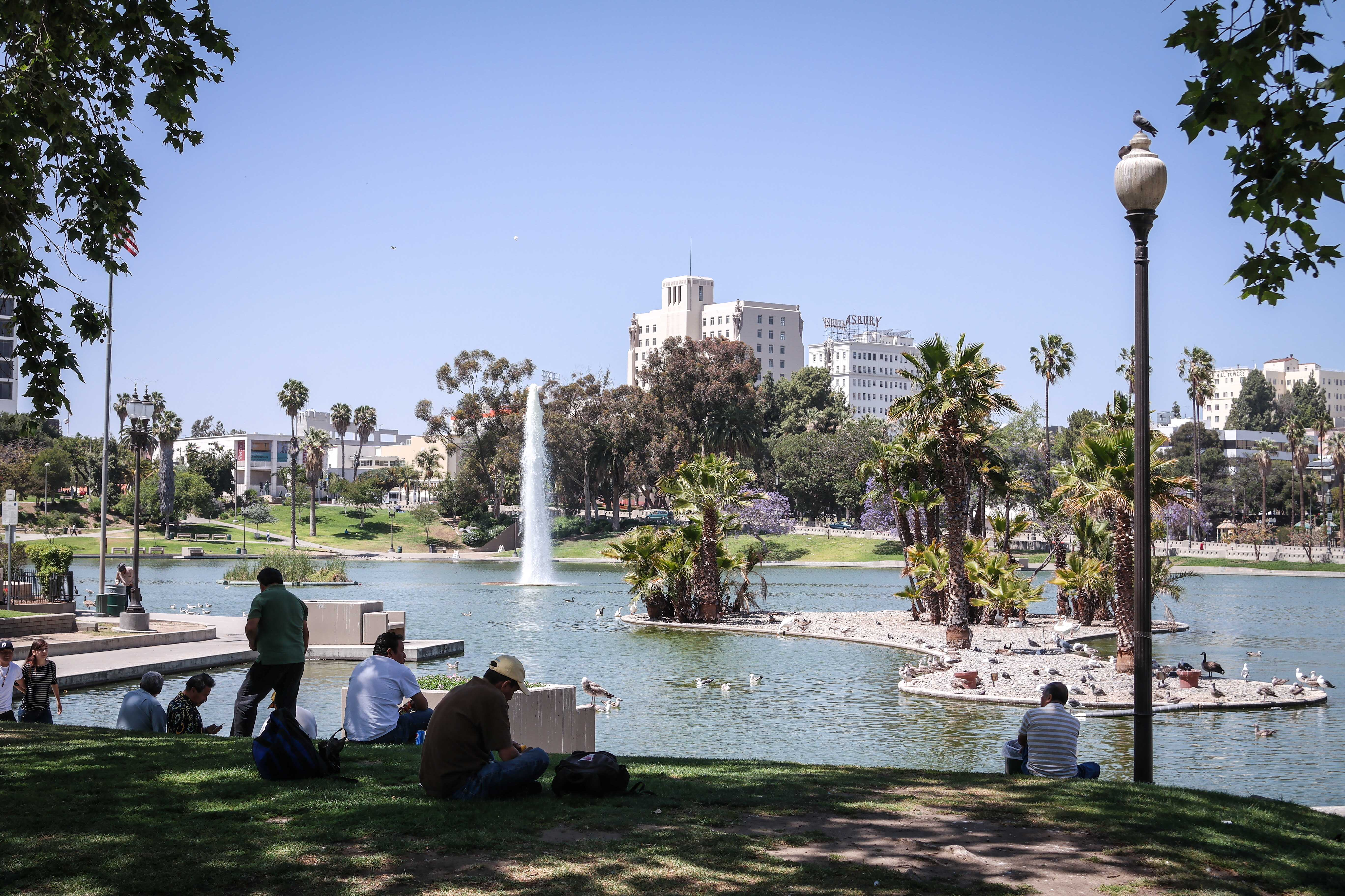 A view of MacArthur Park in Los Angeles. The Park Plaza Hotel and the Ashbury are visible in the distance.